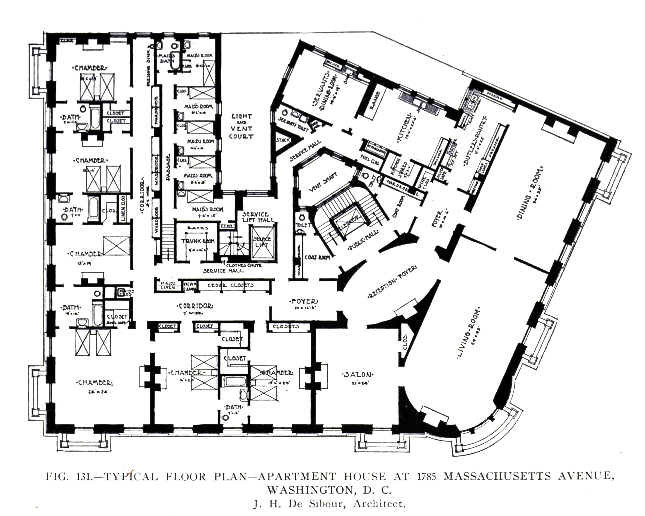 Typical Floor Plan—Apartment House at 1785 Massachusetts Avenue